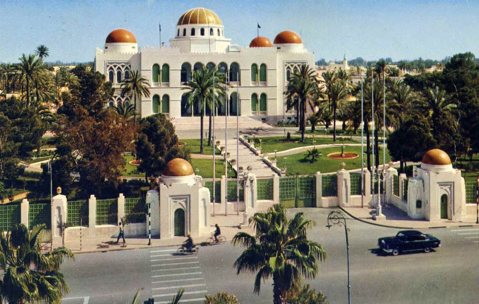 Exterior of the Royal Palace of Tripoli, Libya designed by Italian colonial architect Meraviglia-Mantegazza (1924-1931).